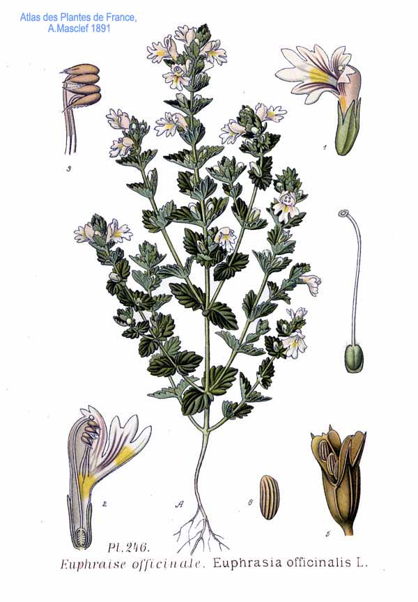 Euphrasia officinalis L.